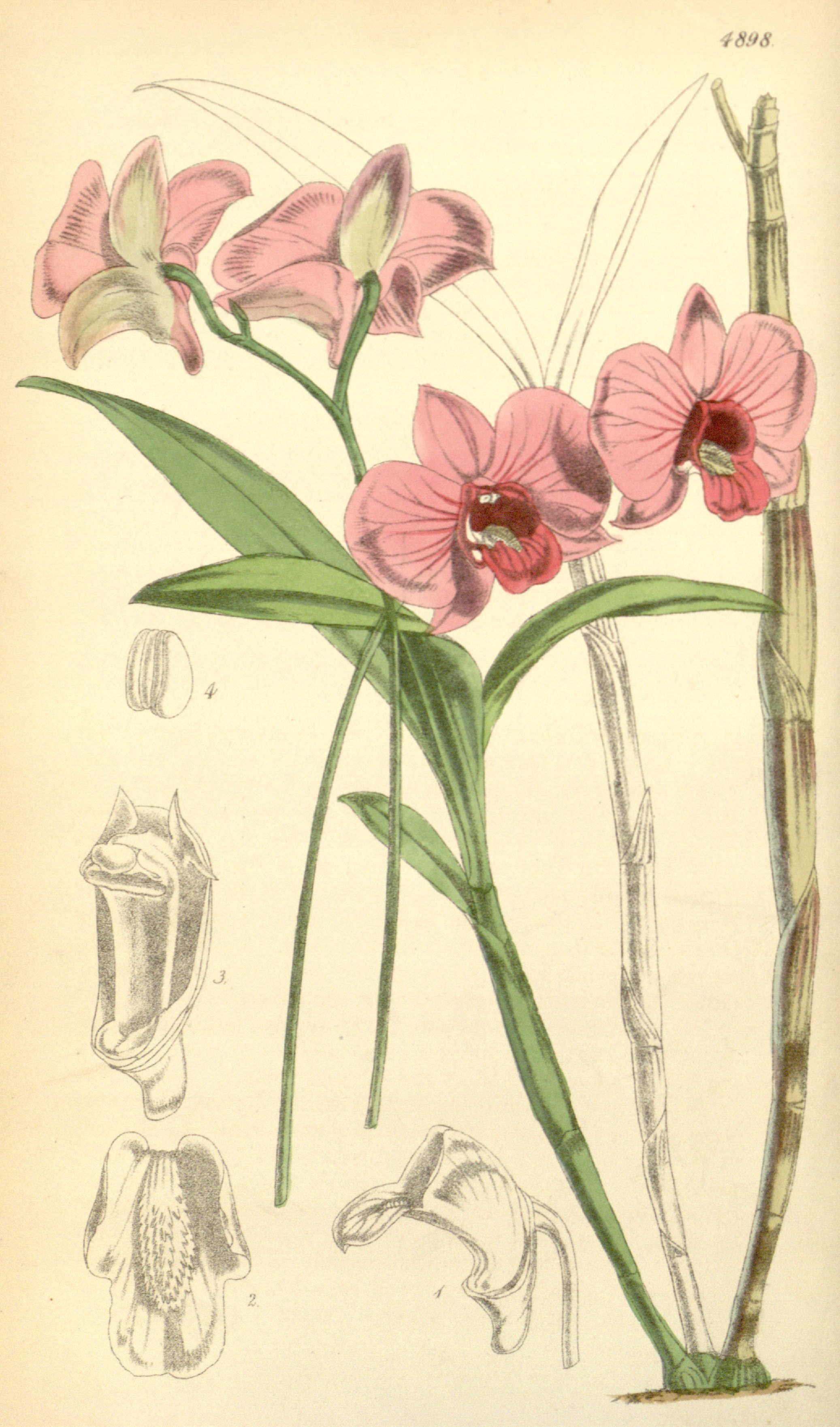 Illustration of Dendrobium bigibbum